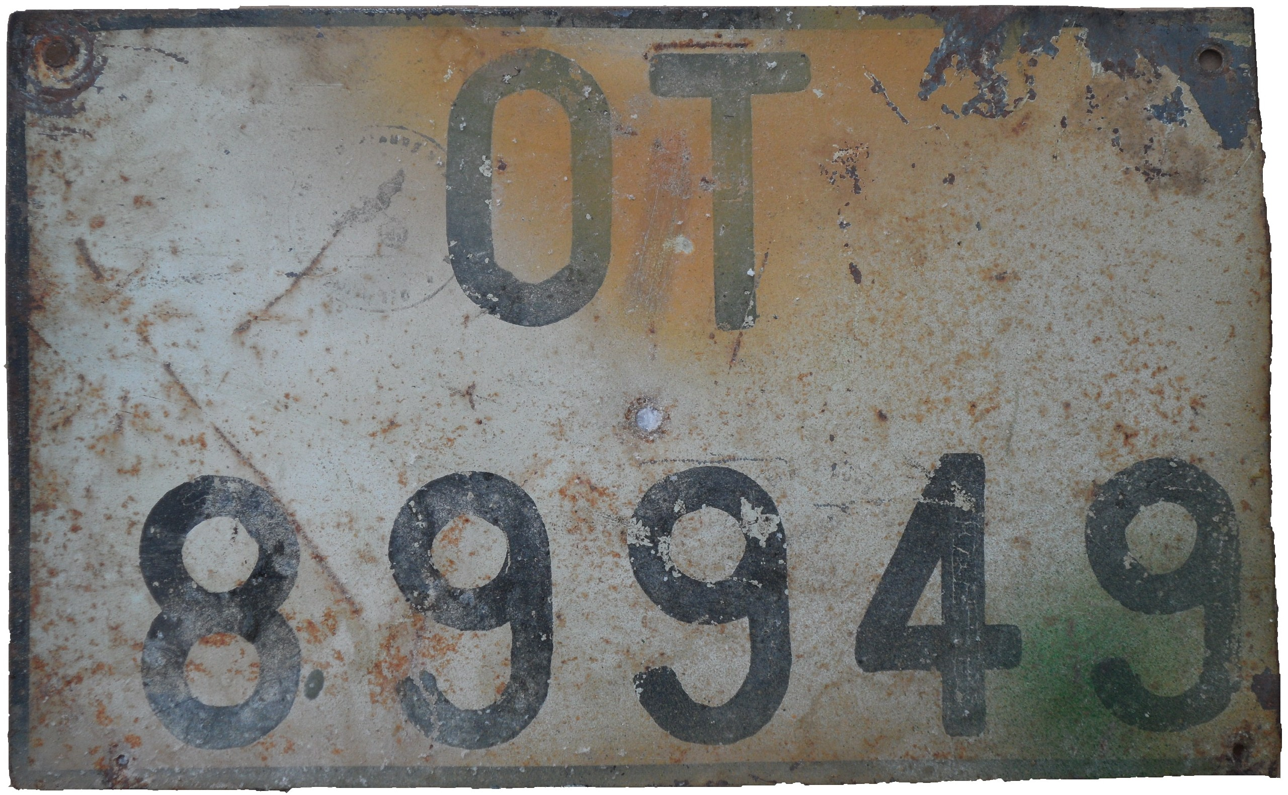 Vehicle registration plate of the Organisation Todt